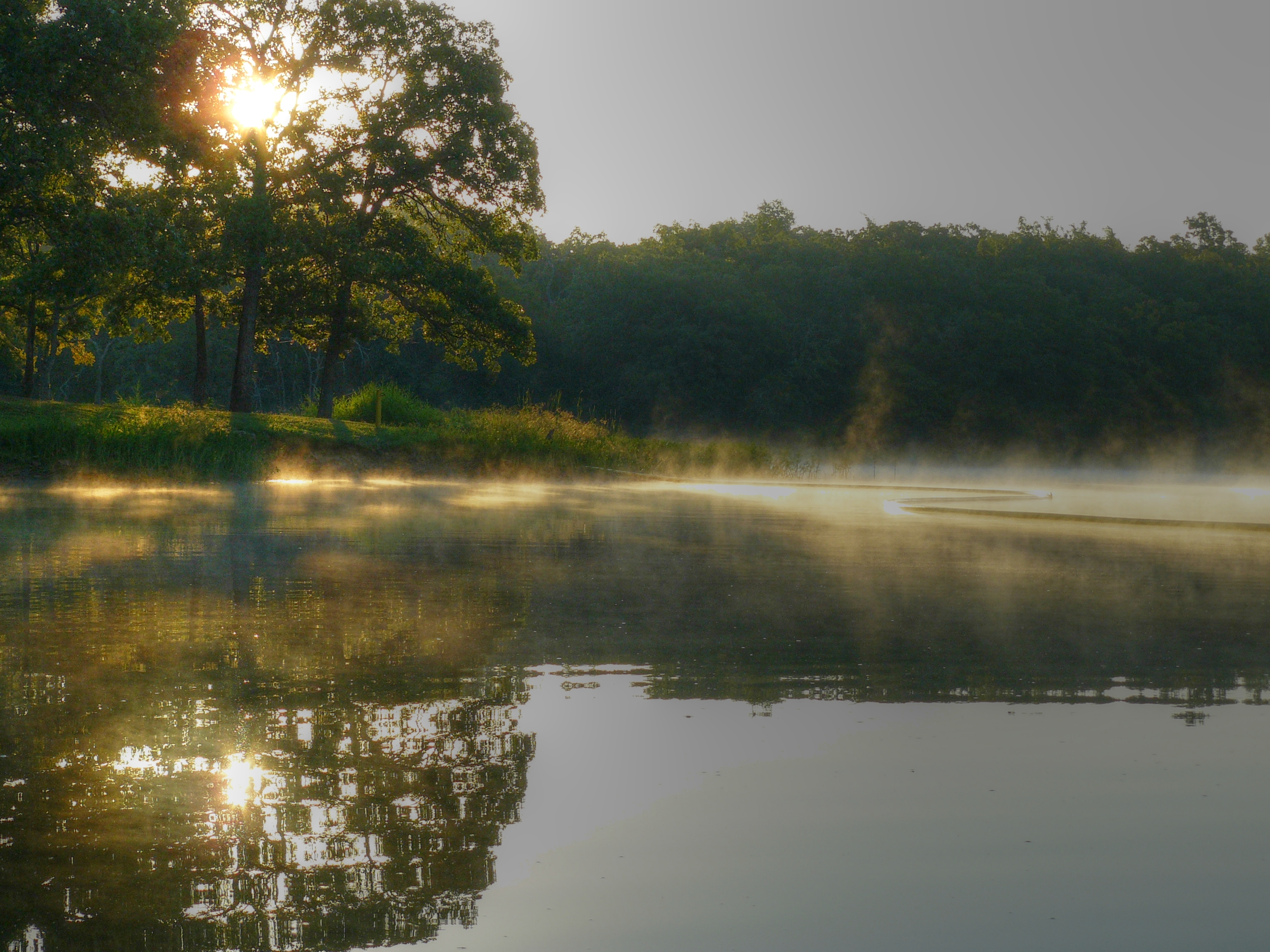 I enjoyed this cool summer morning paddling my kayak on Okmulgee Lake.